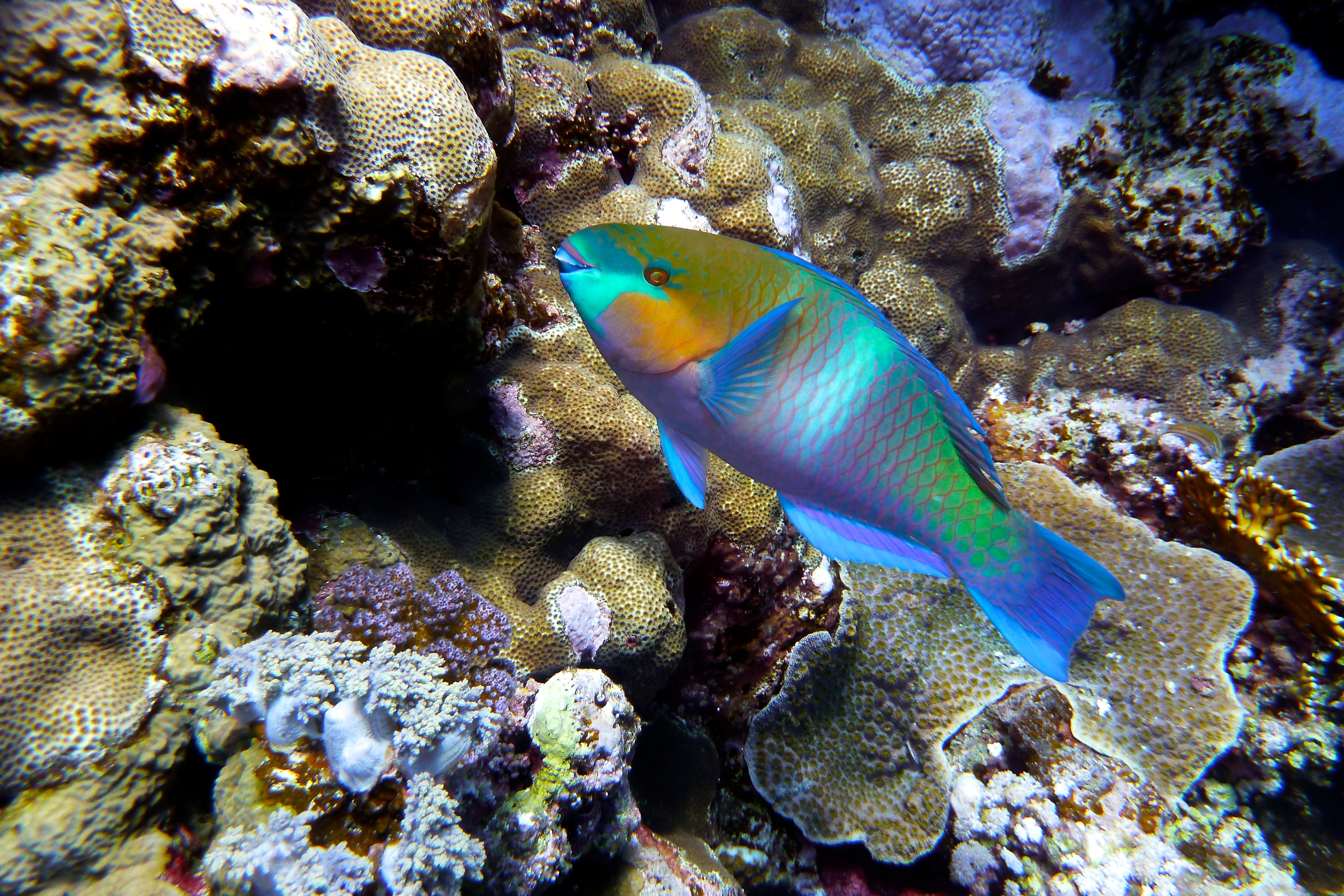 Rusty Parrotfish (Scarus ferrugineus) in the Red Sea